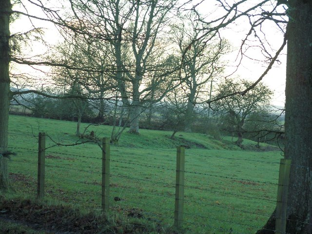 Roman Fortress. The undulations in this field mark where the Romans built a fortress about 2000 years ago